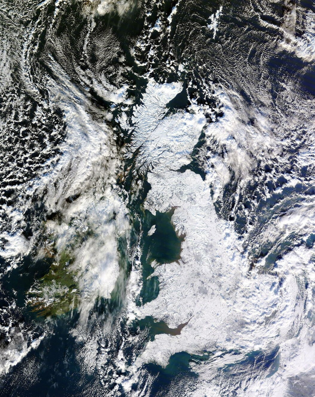 Sattelite image of the British Isles on 7 January, taken by NASA, showing the extent of recent snowfall.